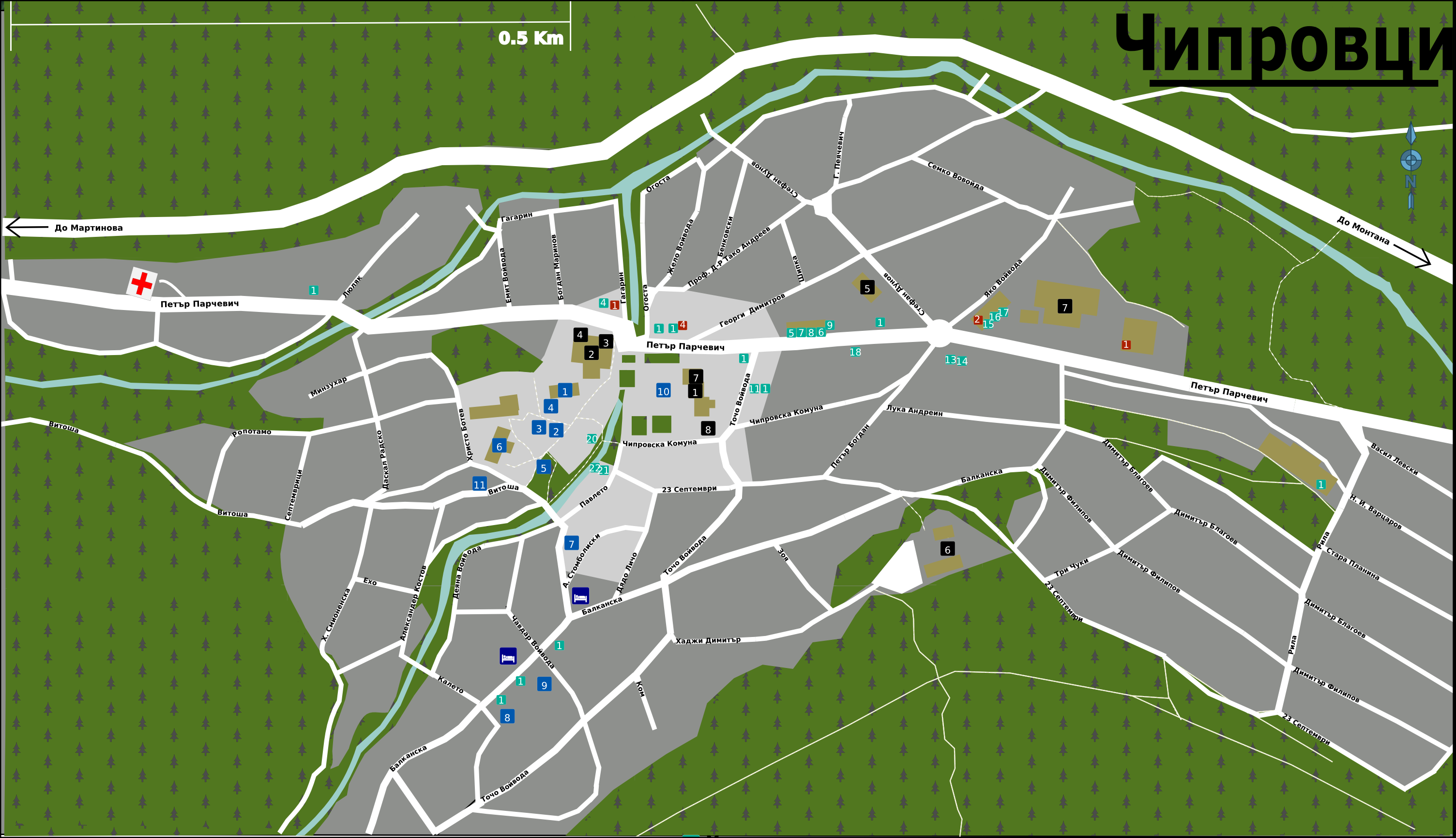 Street map of Chiprovtsi, Chiprovtsi Municipality, Montana Oblast, Bulgaria